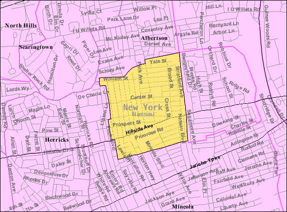 U.S. Census 2000 reference map for Williston Park, New York